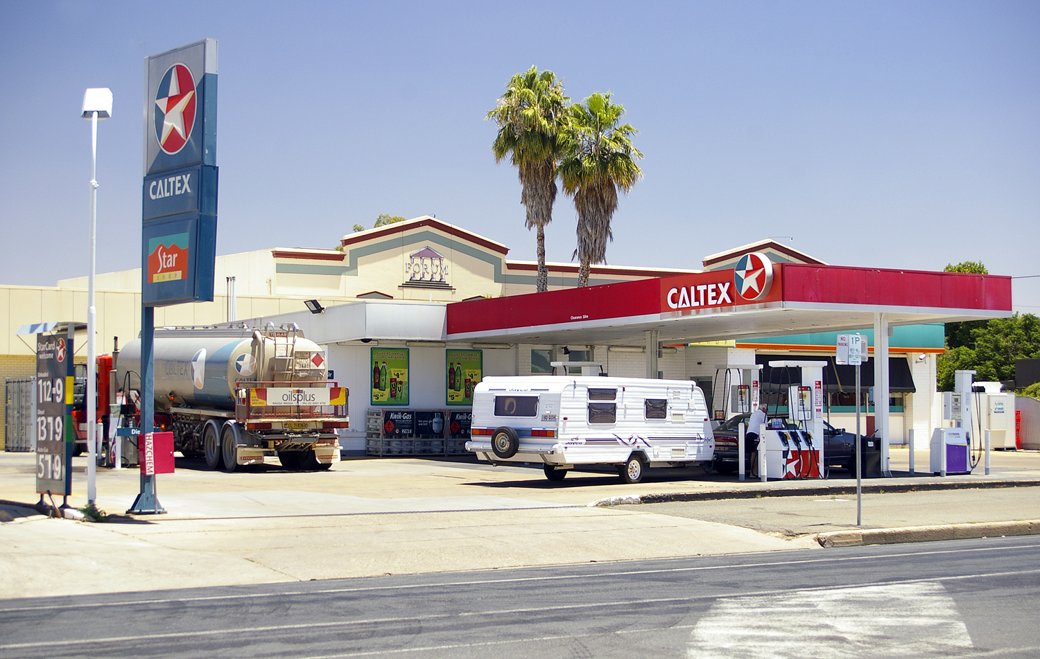 Caltex petrol station located in Fitzmaurice Street, Wagga Wagga, New South Wales.